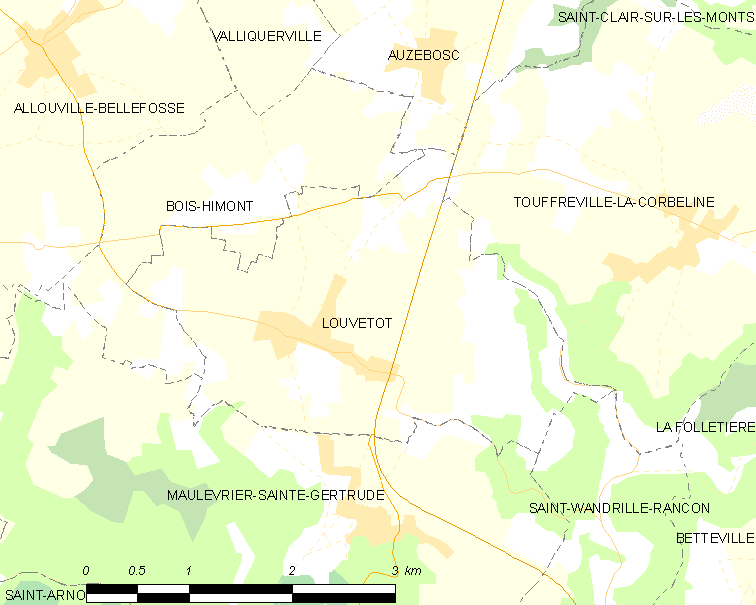 Map of French municipality Louvetot